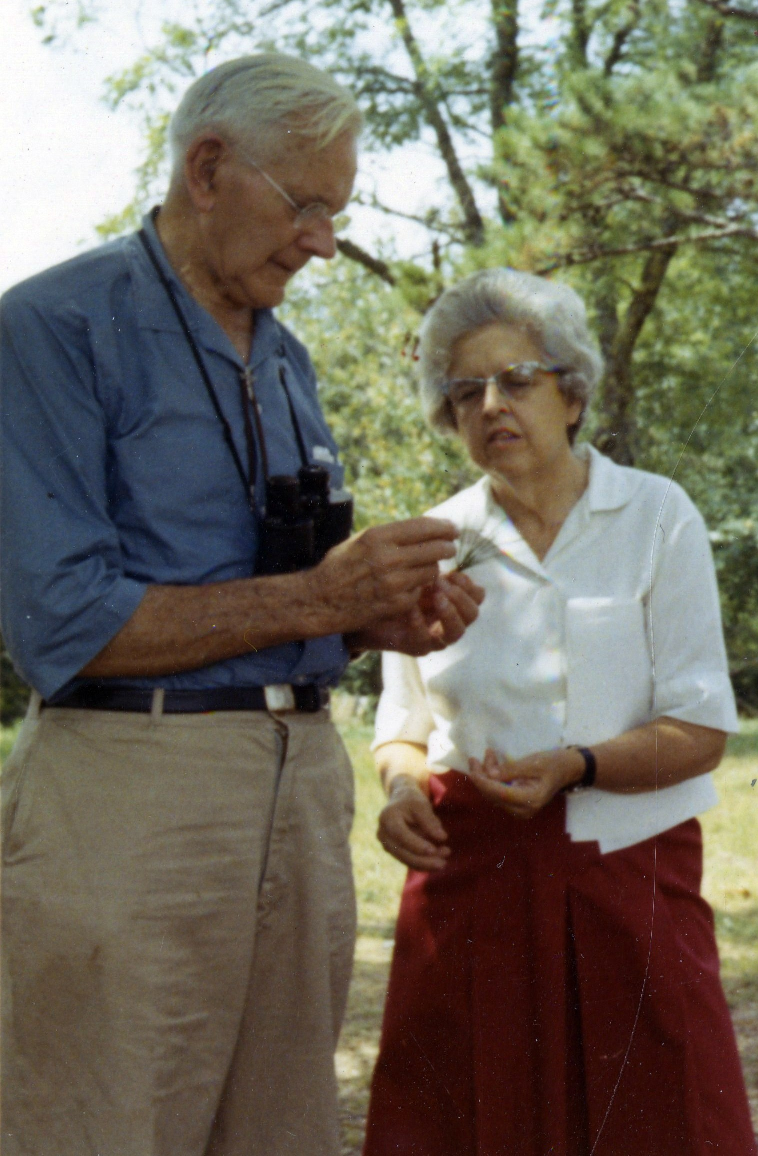 Alexander Wetmore (1886-1978), Annie Beatrice van der Biest Thielan Wetmore (1910-1997), and John Warren Aldrich (1906-1995) on a field trip during the 1969 American Ornithologists' Union Meeting, Fayetteville, Arkansas. "Bea" Wetmore worked as a secretary and translator for various entities of the Netherlands Government and the World Health Organization. After marrying Alexander Wetmore (sixth Smithsonian Secretary) in 1953, she joined him on most of his collecting expeditions to Panama and the Dutch West Indies and assisted him in his numerous publications in ornithology